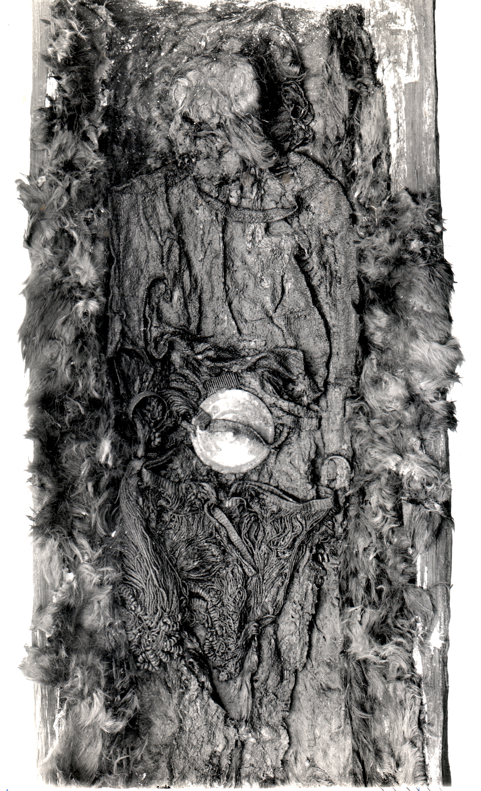 Remains of Egtved Girl with remains of clothing, and fur blanket, The Danish National Museum